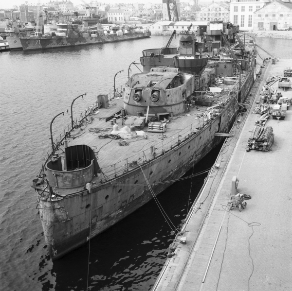 The Swedish coastal defence ship HMS Drottning Victoria being scrapped in Karlskrona, Sweden.